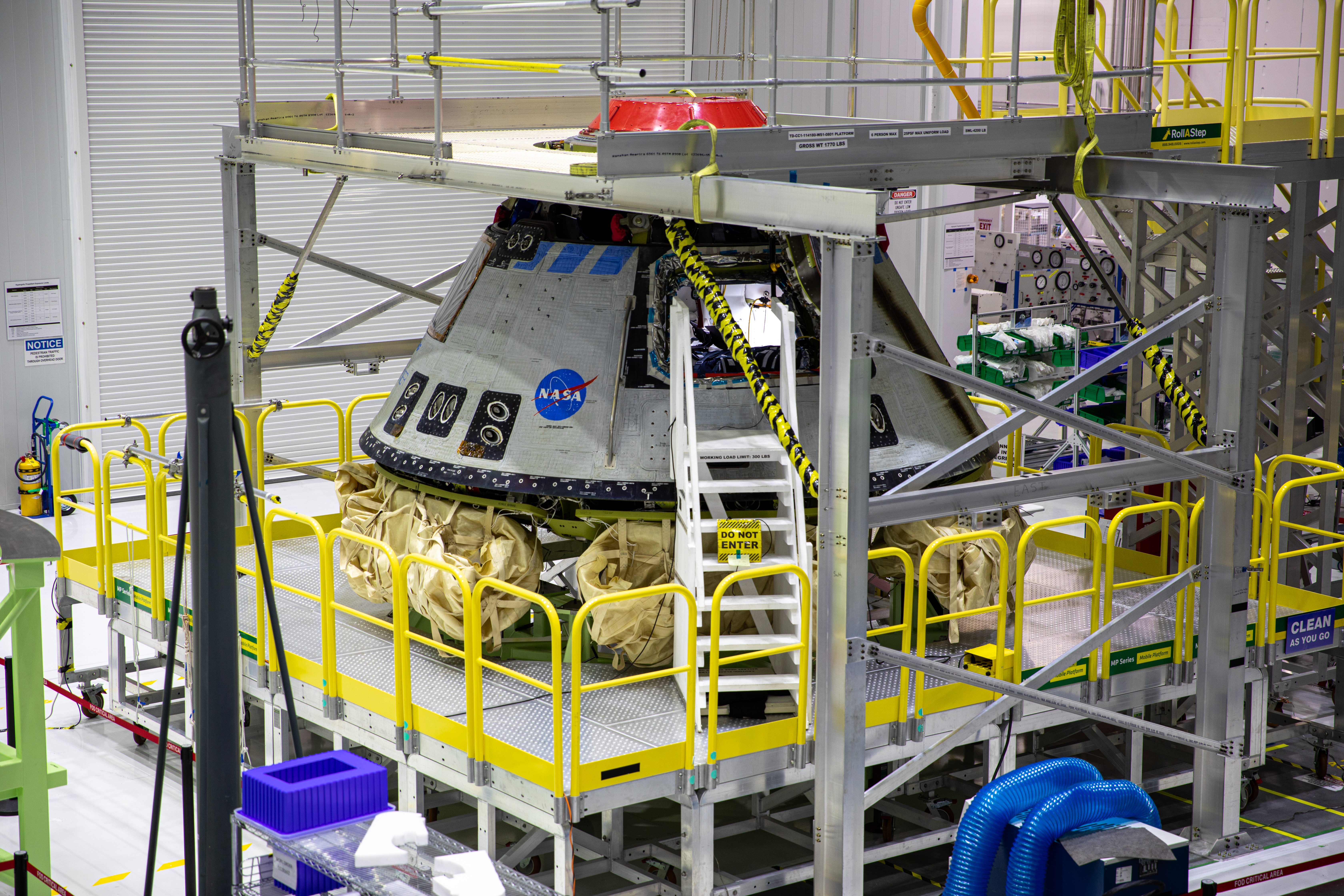 The Boeing CST-100 Starliner spacecraft is back home at the company's Commercial Crew and Cargo Processing Facility, undergoing inspection after its first flight as part of NASA's Commercial Crew Program, known as the Orbital Flight Test. Starliner launched atop a United Launch Alliance Atlas V rocket from Space Launch Complex 41 at Cape Canaveral Air Force Station (CCAFS) in Florida, Friday, Dec. 20, 2019. The mission successfully landed two days later on Sunday, Dec. 22, completing an abbreviated test that performed several mission objectives before returning to Earth as the first orbital land touchdown of a human-rated capsule in U.S. history.